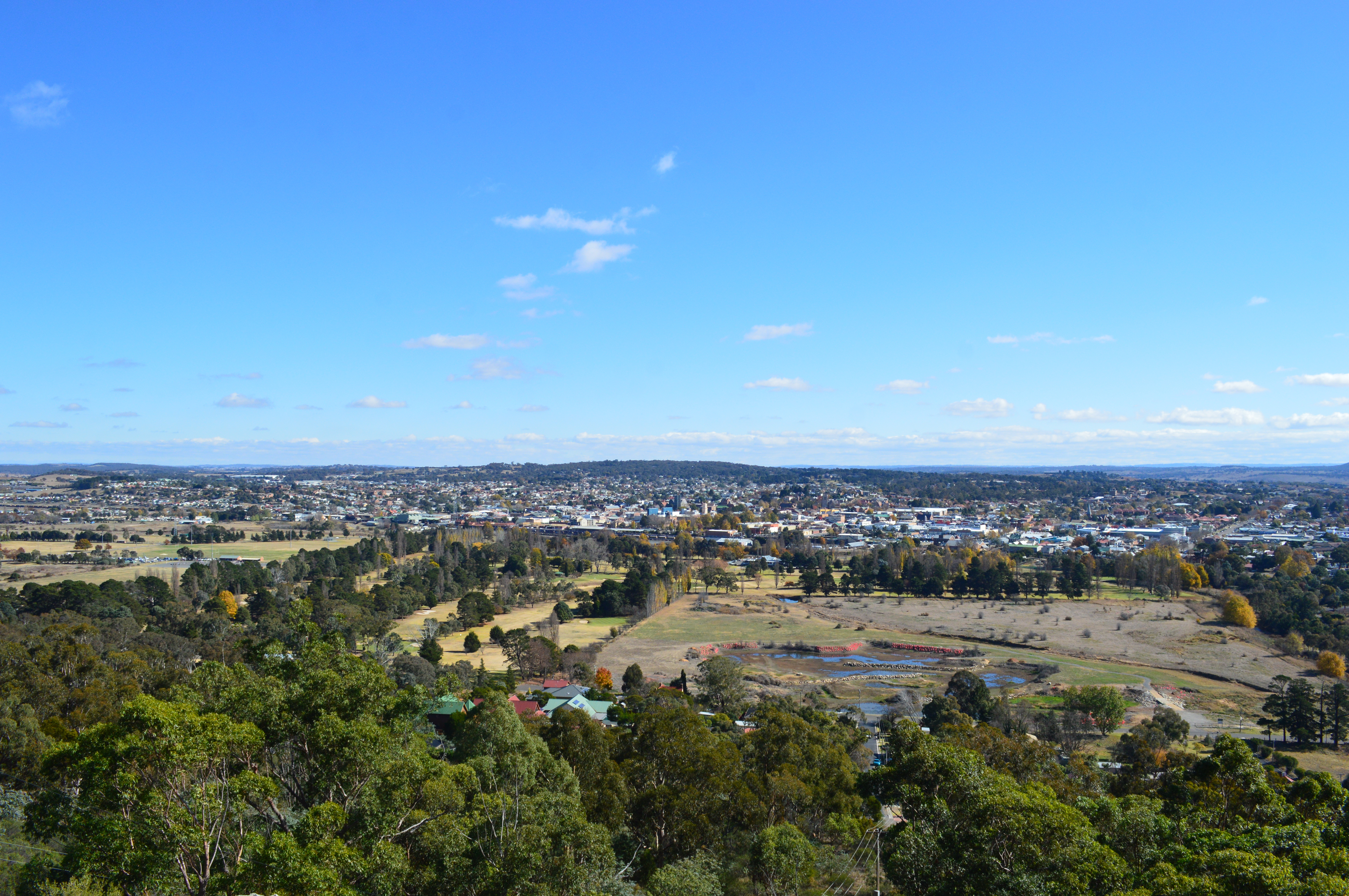 Goulburn, New South Wales seen from the Rocky Hill War Memorial